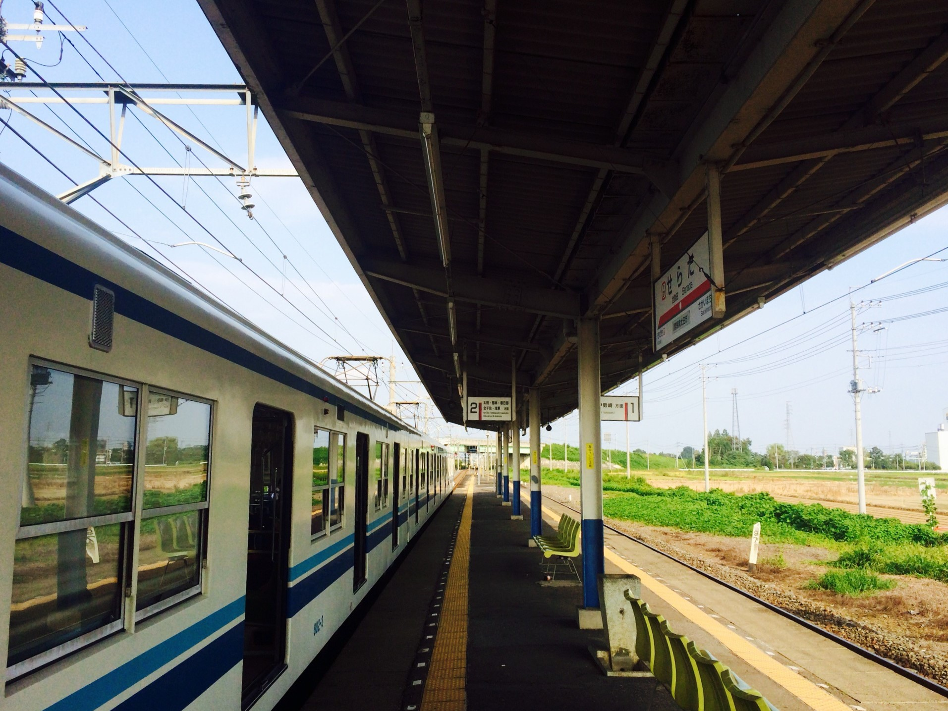 The platform at Serada Station on the Tobu Isesaki Line